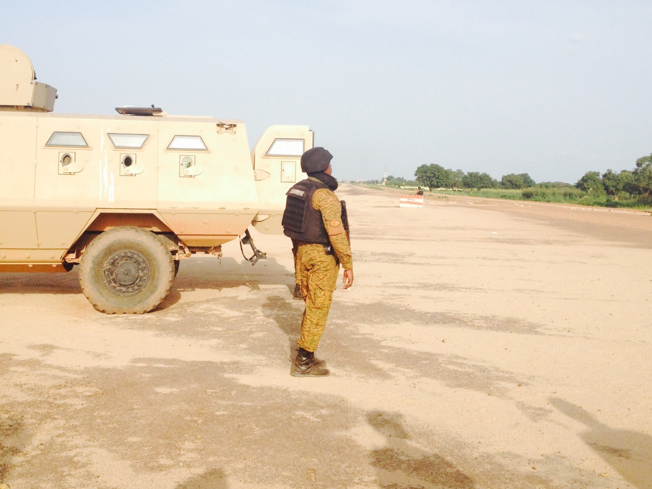 A member of the Gendaremrie of Burkina Faso in front of the palace of president in Ouagadougou, 29th September 2015.